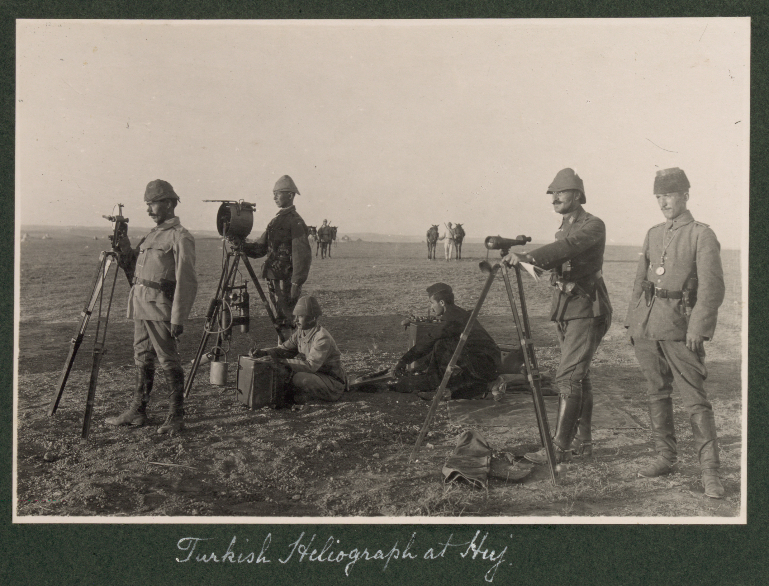 Ottoman military heliograph crew at Huj.